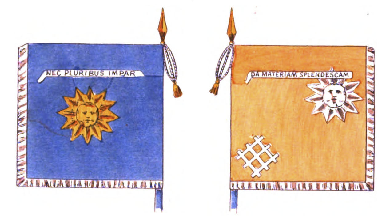 Drawing of the standard of the Régiment de Condé-Cavalerie from 1740–1776